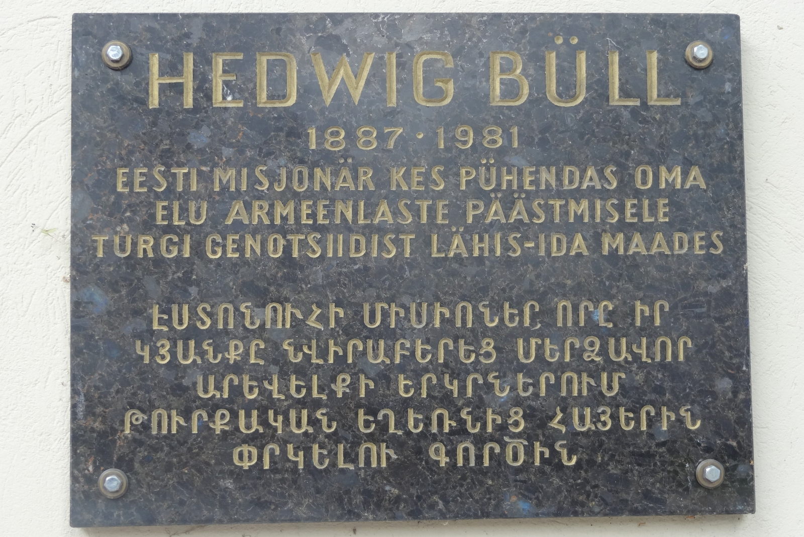 Memorial plaque for Hedwig Büll. Haapsalu (Estonia), Kooli str. 5. Text bilingual in Estonian and Armenian. "Hedwig Büll • 1887–1981. Estonian missonary who devoted her life to saving Armenians from the Turkish genocide in the countries of the Middle East."